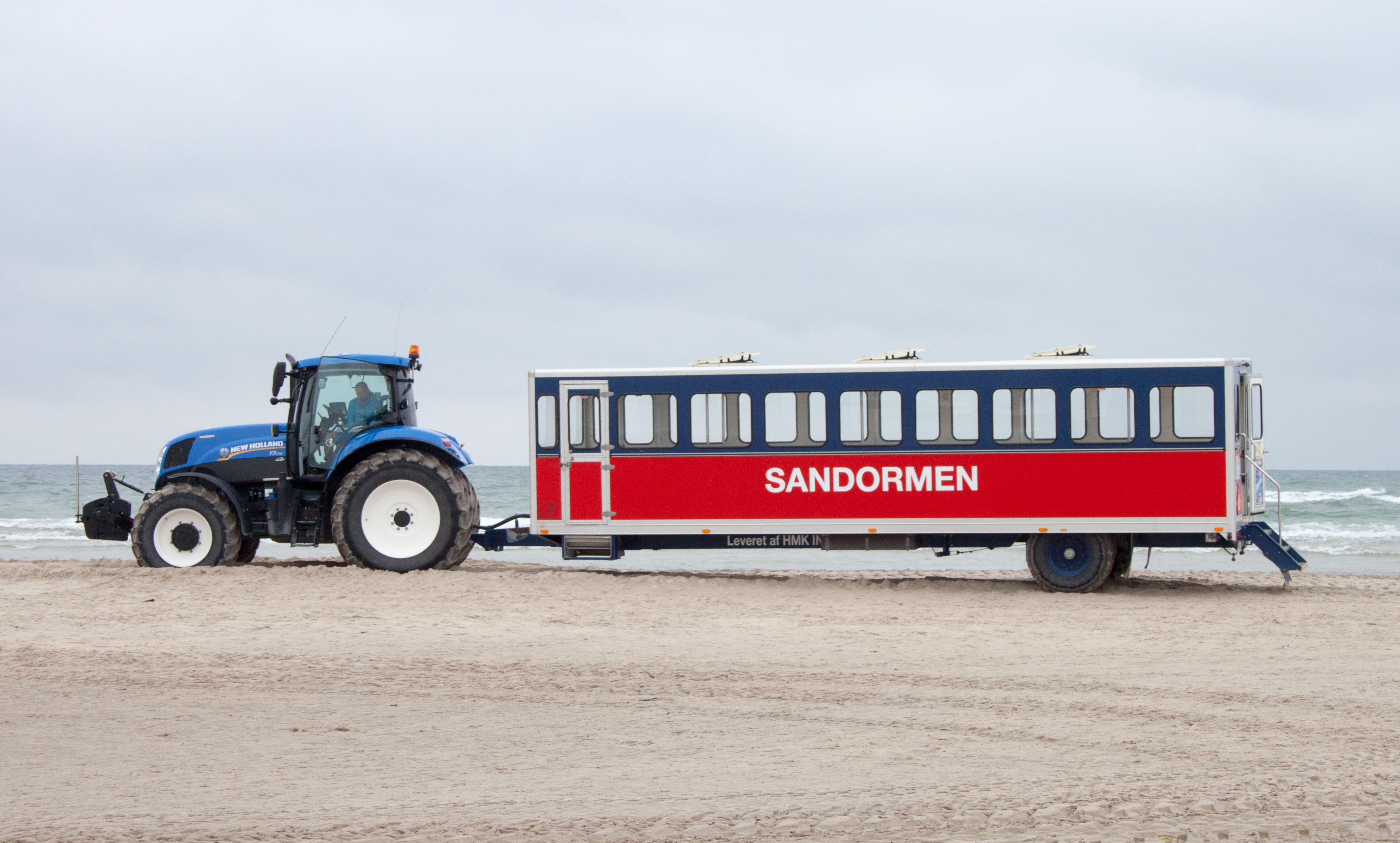 Grenen, bus for the tourists